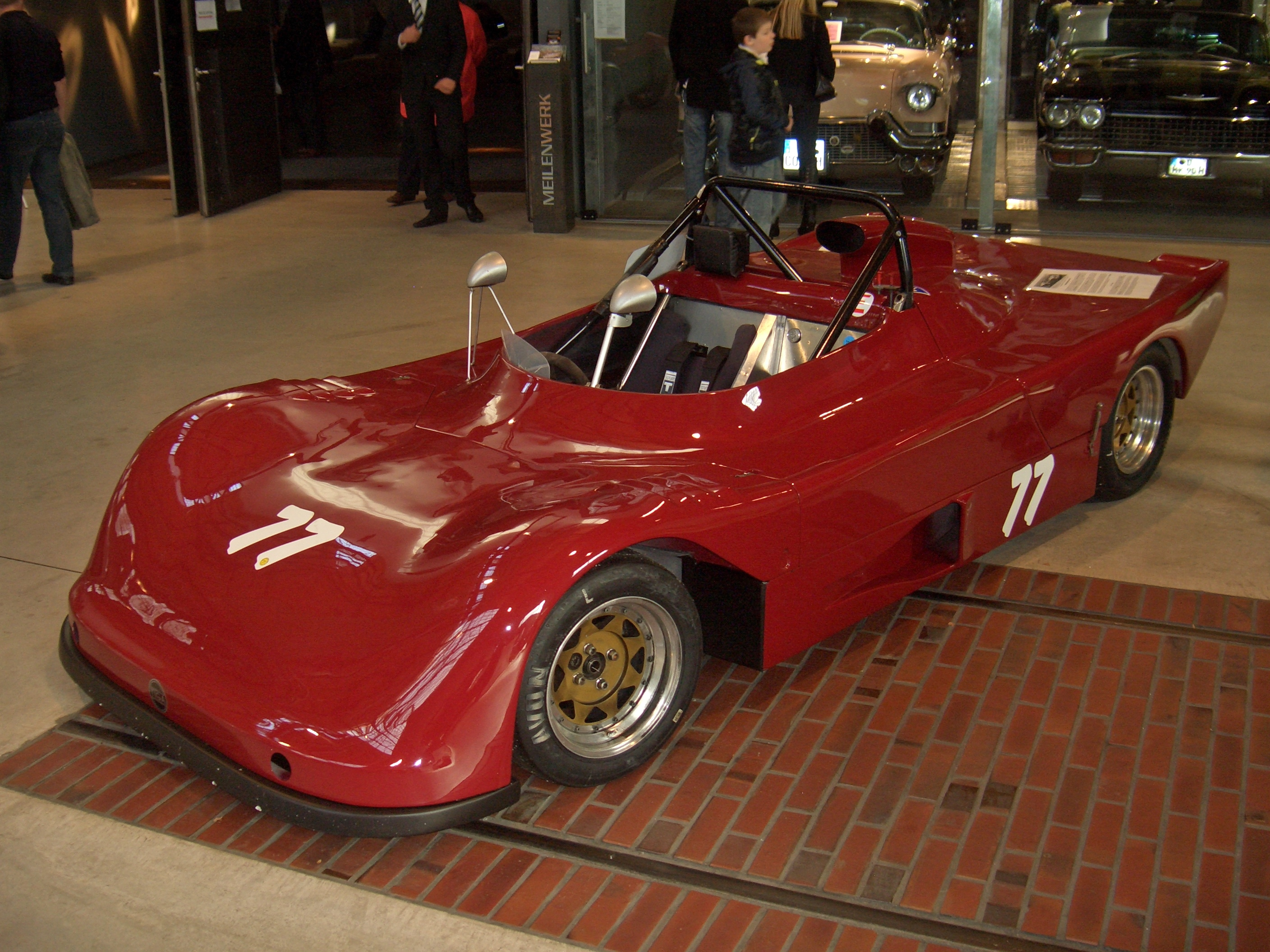 TIGA SC 77 (Ford Pinto ohc 2l), 1977, seen at MEILENWERK, Düsseldorf, Germany